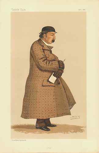 Men of the Day No.0390: Caricature of Capt James Octavius Machell. [1]. Caption reads: "Jem"